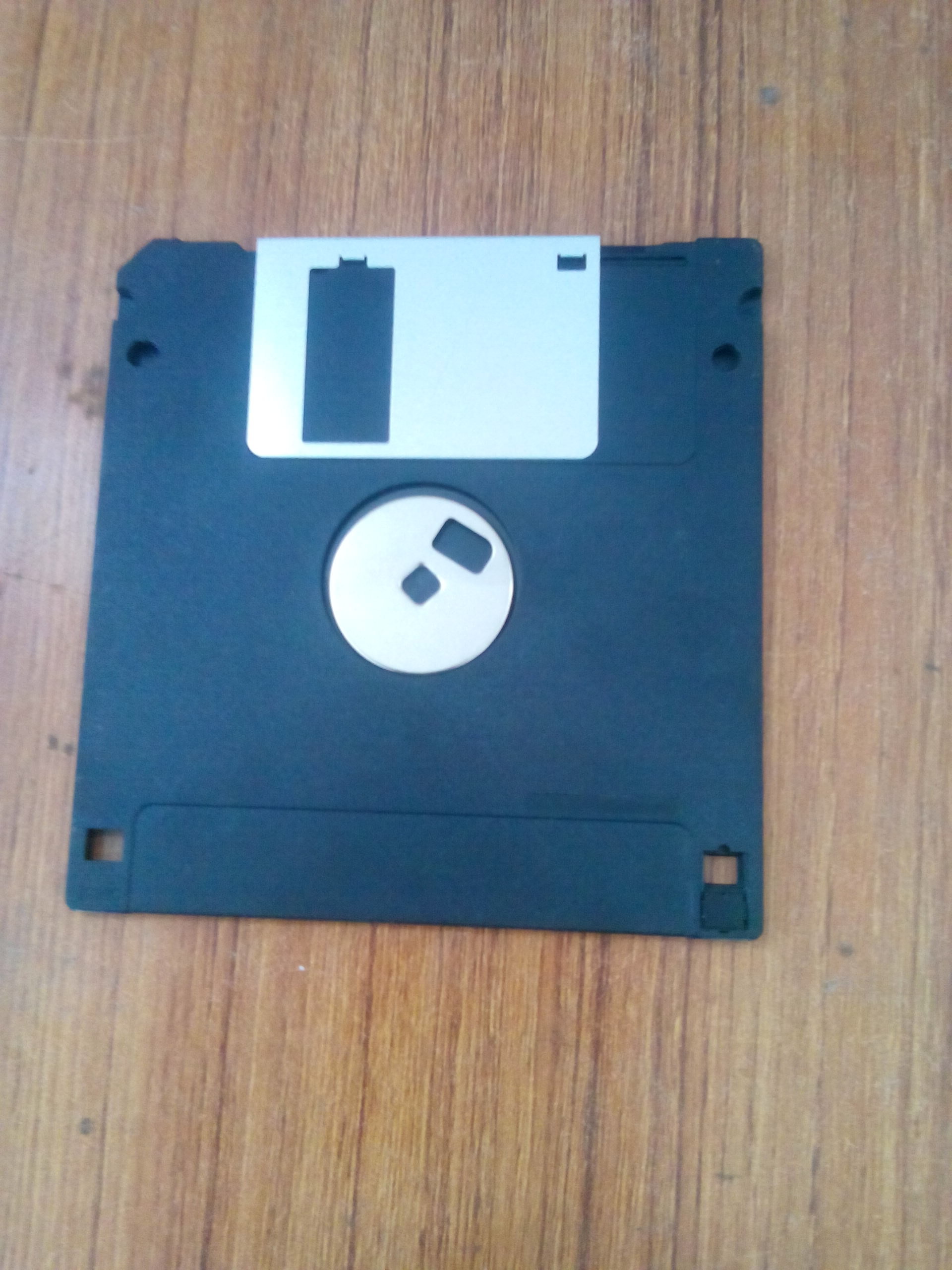 3½-inch floppy disks